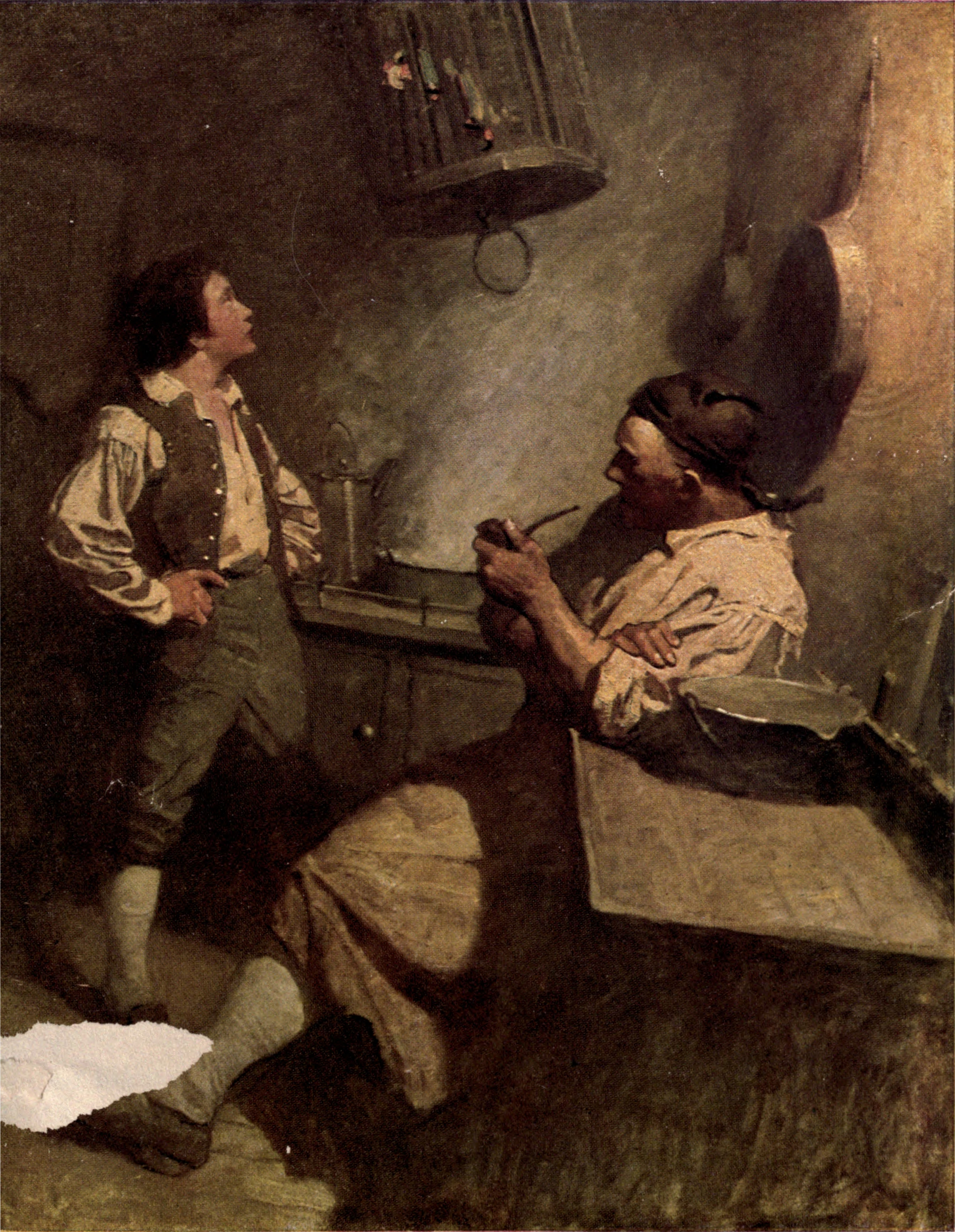 Long John Silver and Hawkins. Jim Hawkins, Long John Silver and his Parrot by N. C. Wyeth from 1911 edition of Treasure Island by Robert Louis Stevenson, Charles Scribner's Sons, 1911